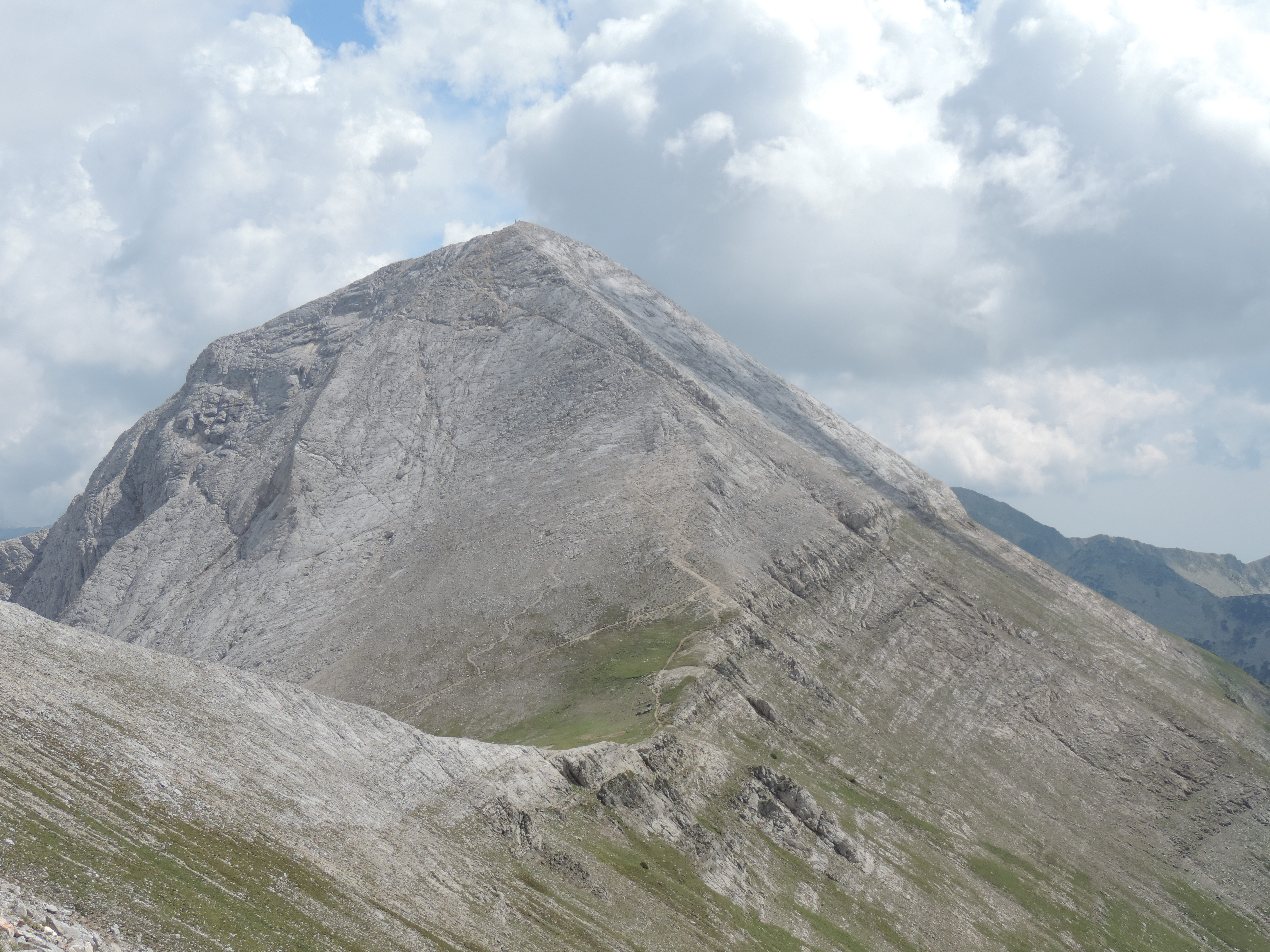 Vihren, Pirin National Park, Bulgaria